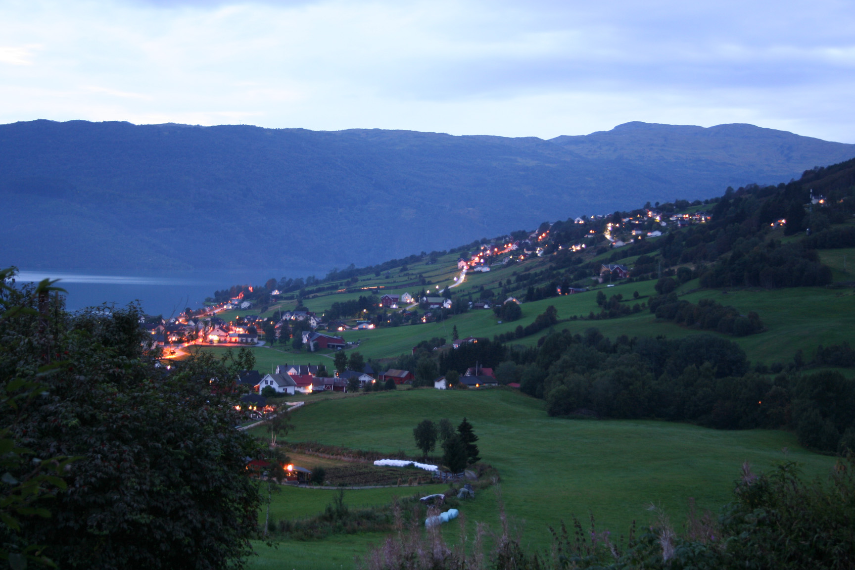 Evening at the lovely village of Hafslo, Norway